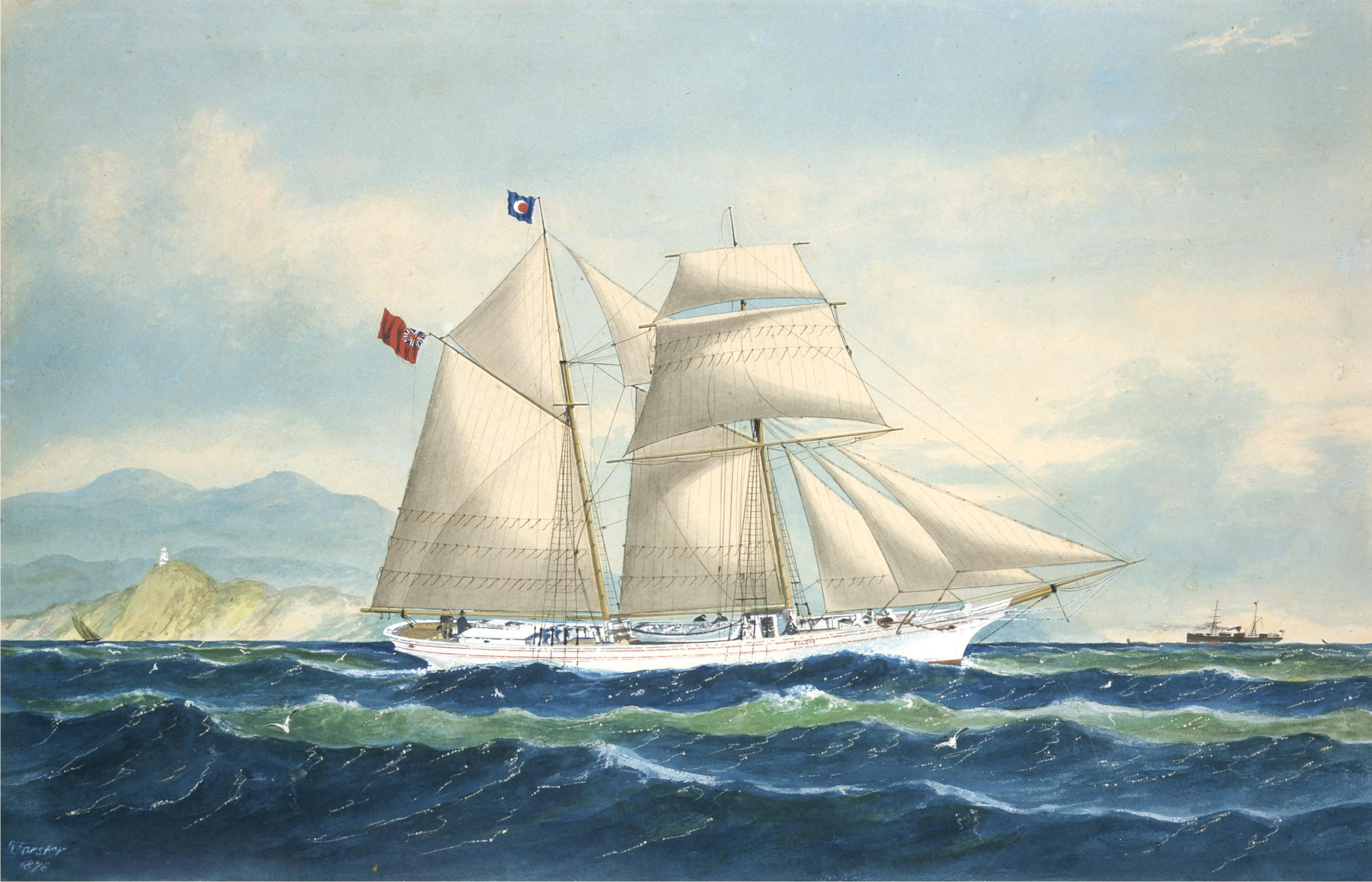 Shows a profile portrait of a three-masted[sic!] sailing ship flying two flags from its mast tops. There is a steamship in the right distance, and Pencarrow Head and lighthouse in the left background.